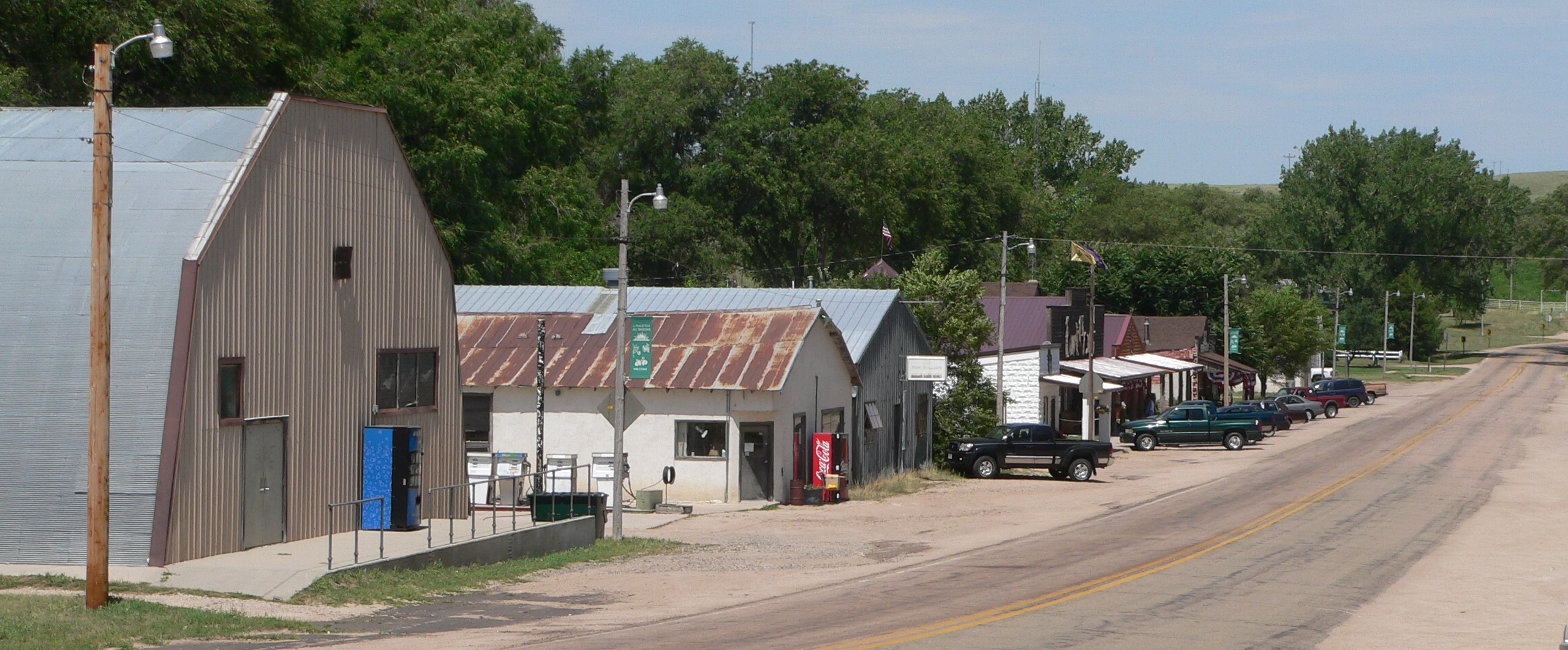 Downtown Arthur, Nebraska: west side of Fir Street (Nebraska Highway 92/Nebraska Highway 61), seen looking northwest from near Marshall Street.